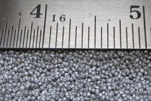 Aluminium Granules, Courtesy-Synergy Aluminium, India